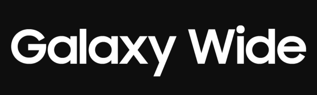 Galaxy Wide Logo